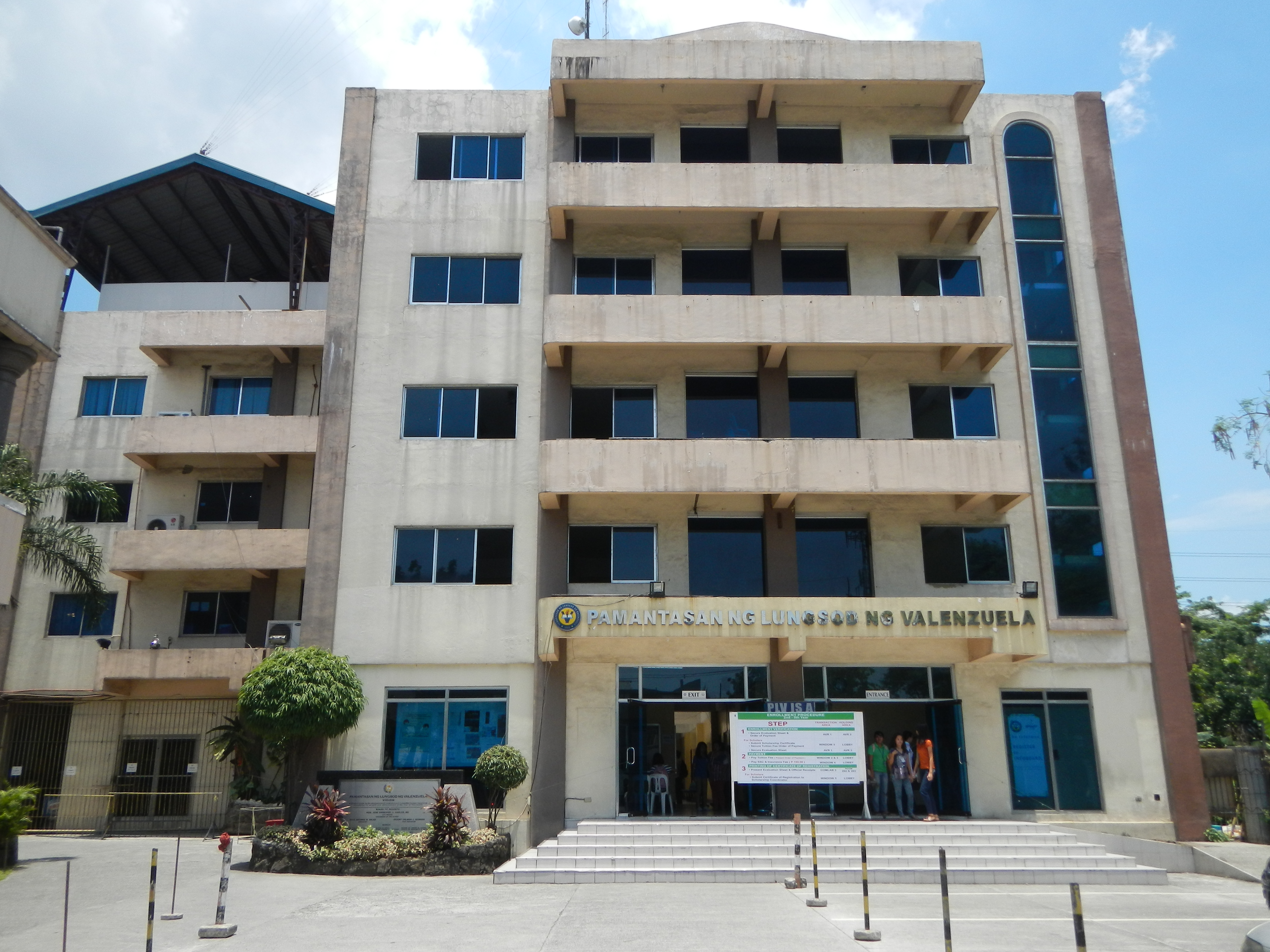 Pamantasan ng Lungsod ng Valenzuela is beside Valenzuela City Convention Center and Valenzuela City Jail in front of the Church of Jesus Christ of Latter-day Saints, Barangay Maysan, Valenzuela City (Valenzuela, Lists of barangays in Philippine cities and municipalities, List of barangays in Valenzuela).